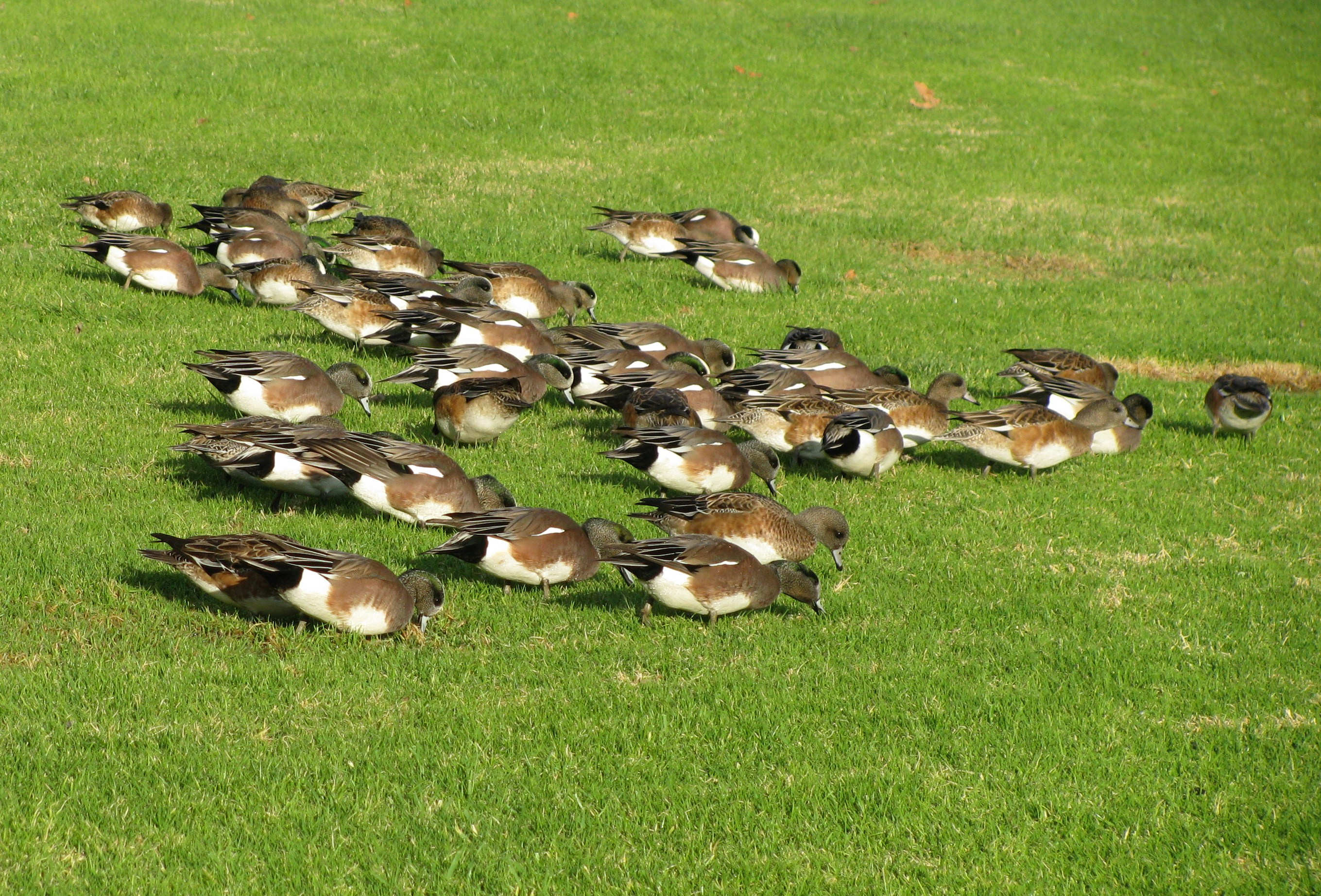 Anas americana American wideon Location: Ralph B. Clark Regional Park